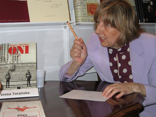 Teresa Torańska (1944-2013), Polish journalist and author